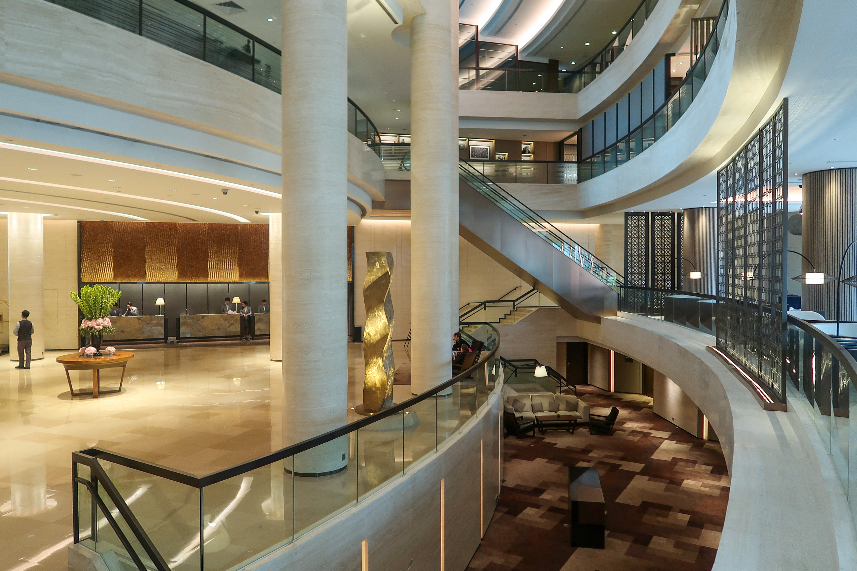 New World Millennium Hong Kong Hotel lobby